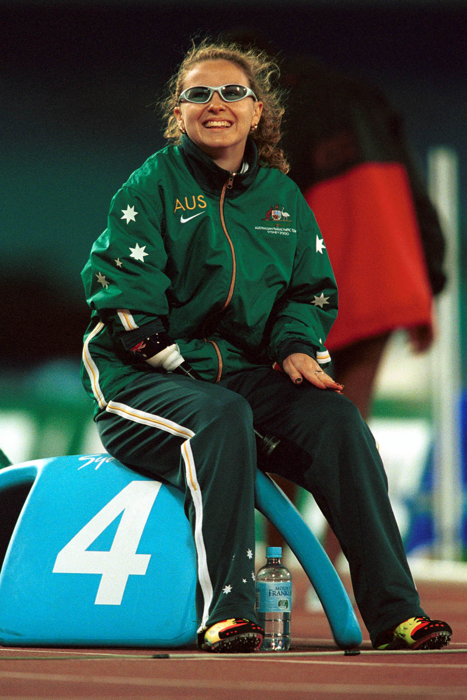 Australian track athlete Amy Winters rests and looks relaxed before a race at the 2000 Sydney Paralympic Games